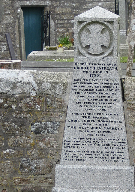 Monument to Dolly Pentreath Died in 1777 at the age of 102 and said to be the last person to converse solely in the ancient Cornish language.